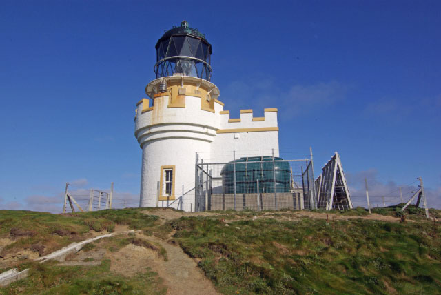 Brough Head Lighthouse Seen from the seaward side, the lighthouse looks out from the north western tip of the Orkney Mainland. Conditions here are benign, but this must be a very bleak spot at times.